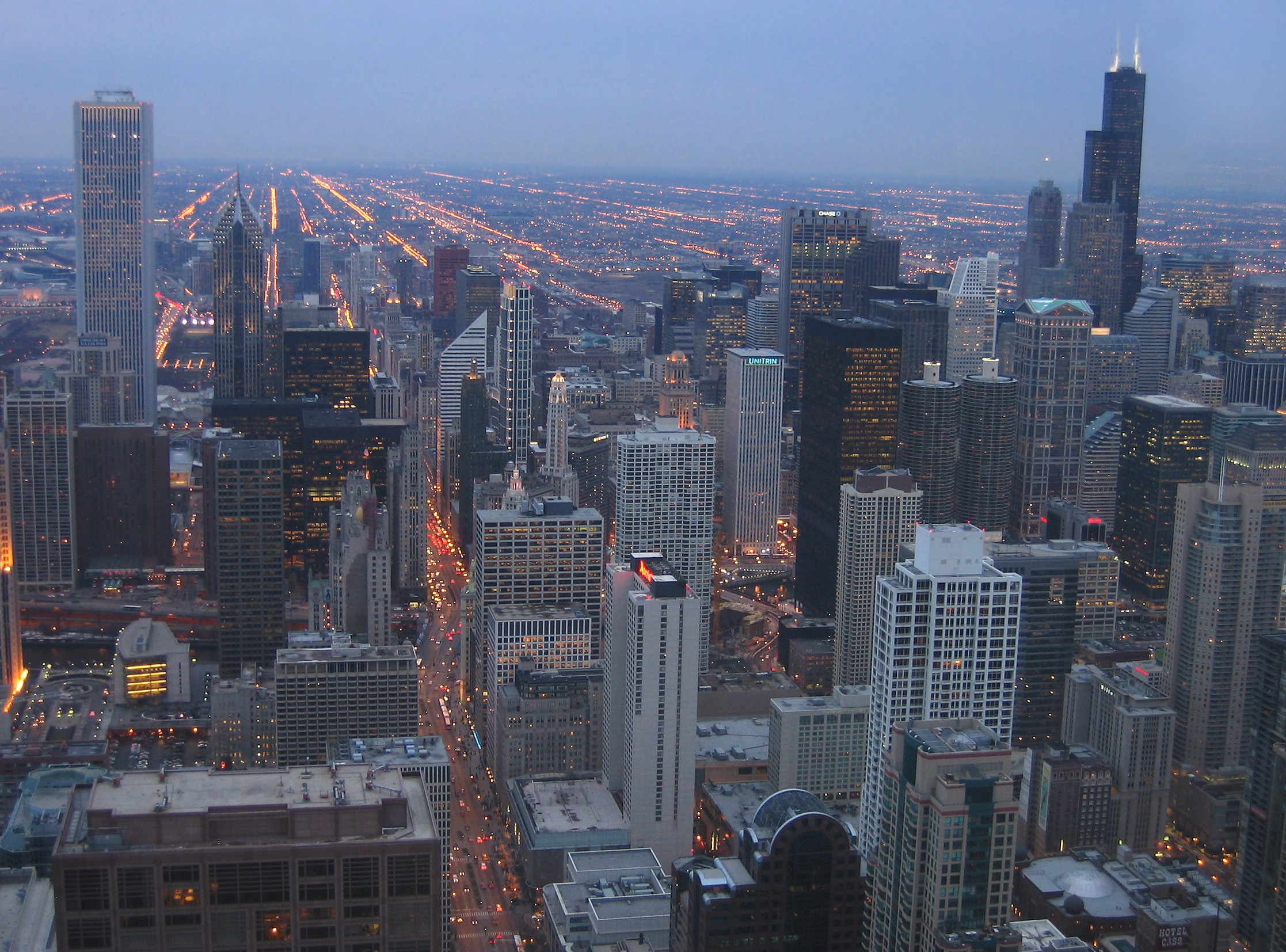 Downtown Chicago skyline (Aon Center - left; Sears Tower - right), viewed from the John Hancock Center observatory.